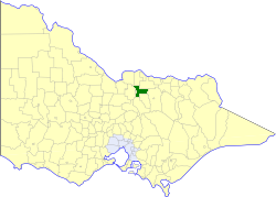 Location of the Shire of Shepparton within Victoria.